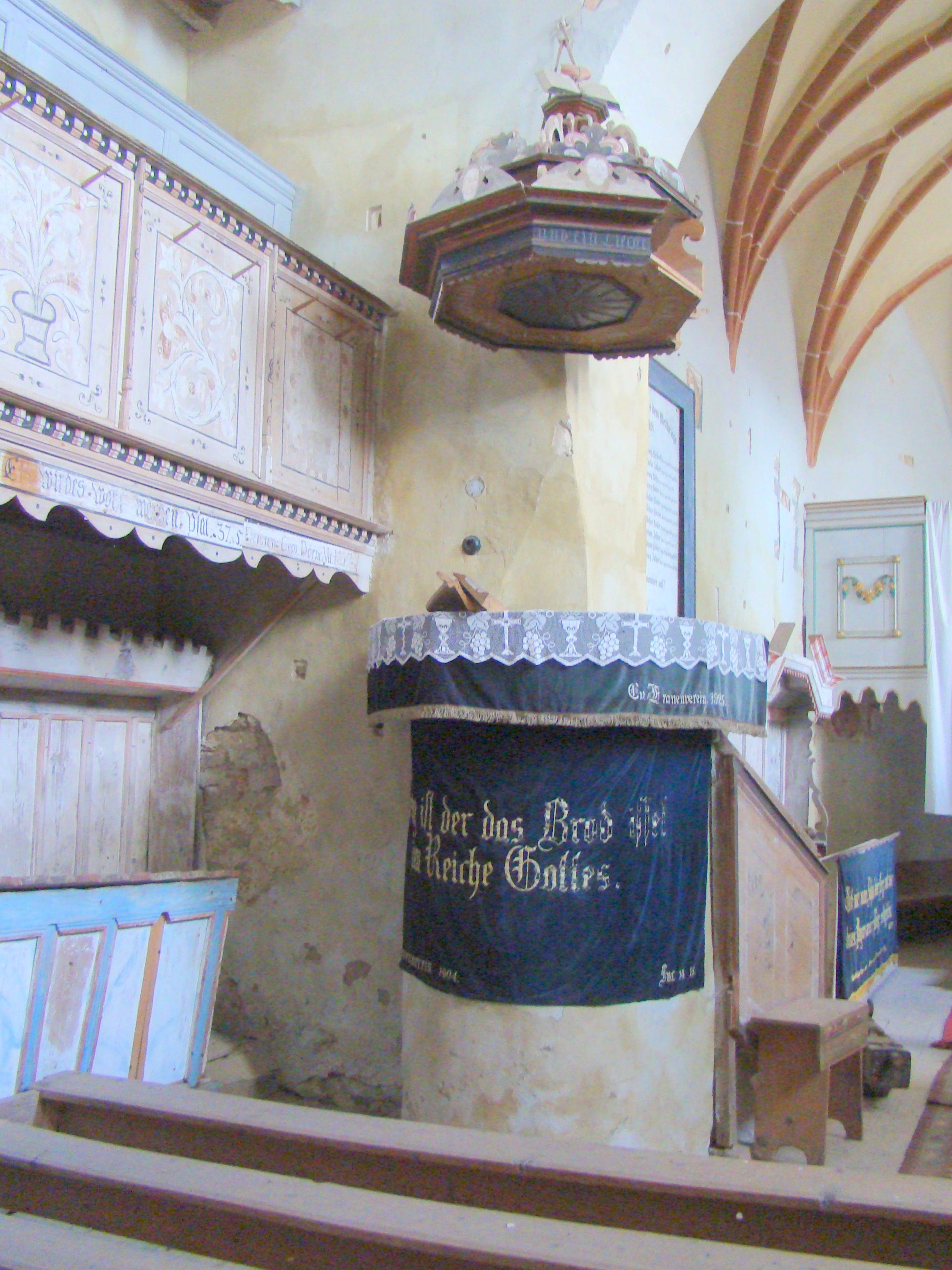 Fortified church in Roadeș, Brașov County, Romania